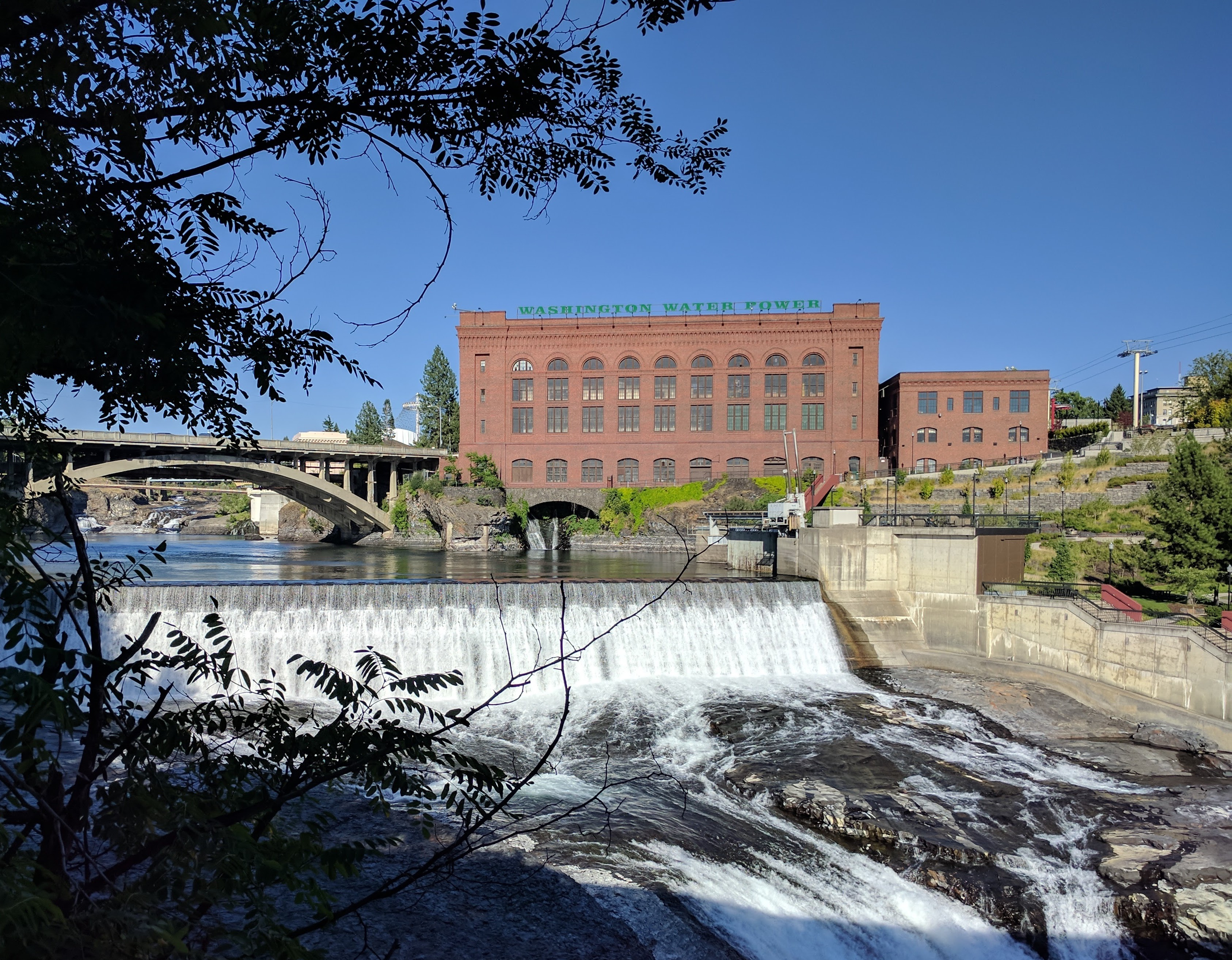 A photograph of the east side of the Post Street Electric Substation taken on a sunny day taken from the north bank of the Spokane River underneath the Monroe Street bridge